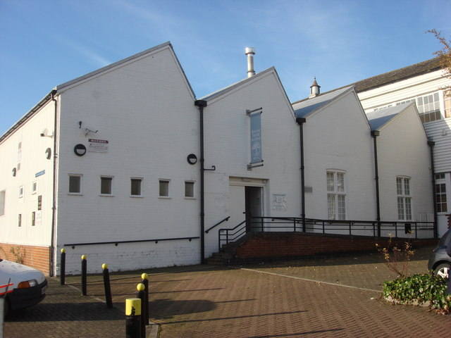 Warner Textile Archive Located at Warner’s Mill, Silks Way.